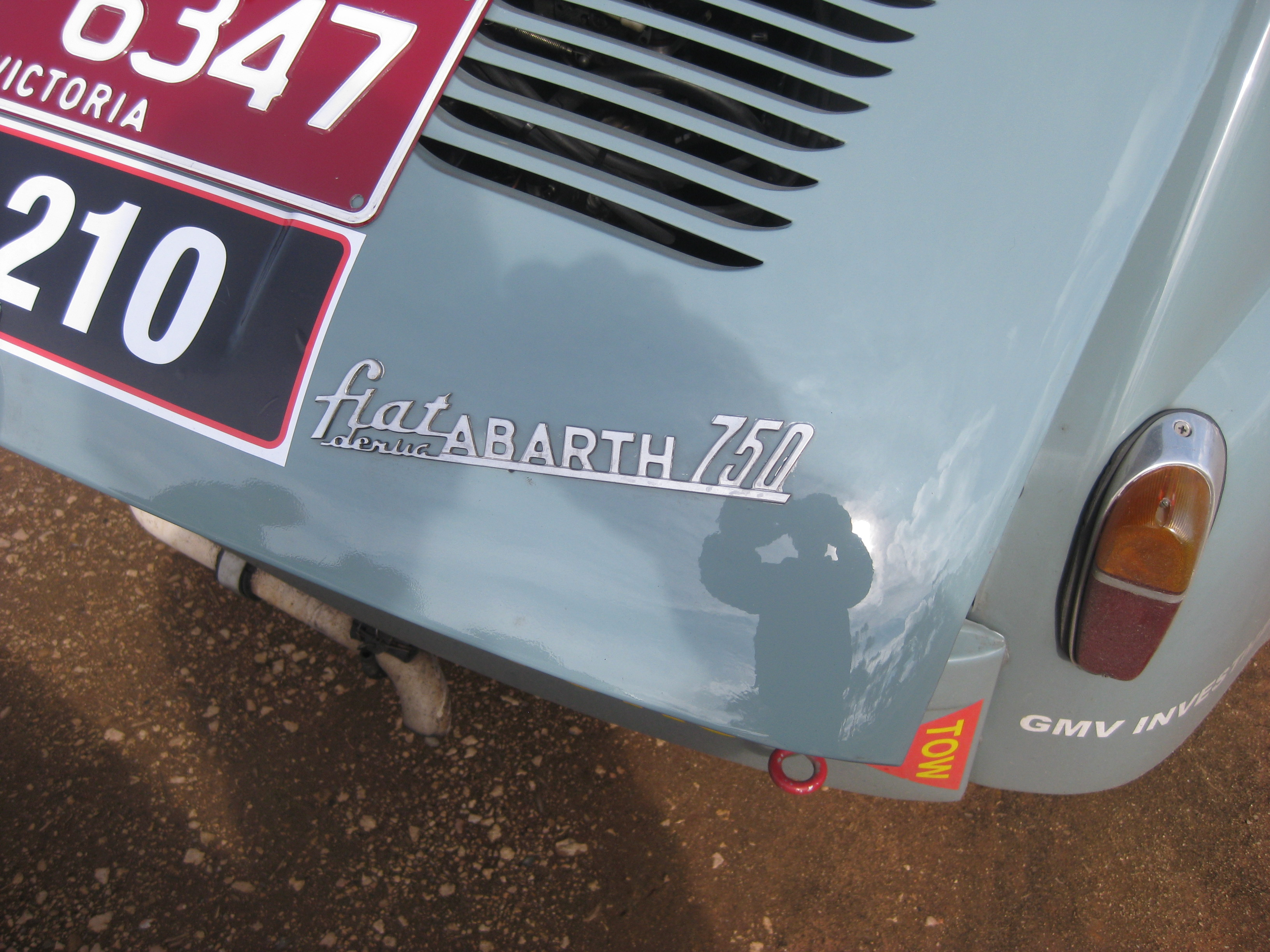 Fiat Abarth 750 in the 2012 Targa Adelaide